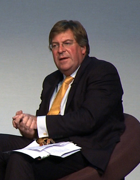 Journalist Edward Stourton interviewing Clare Chapman at the Department of Health